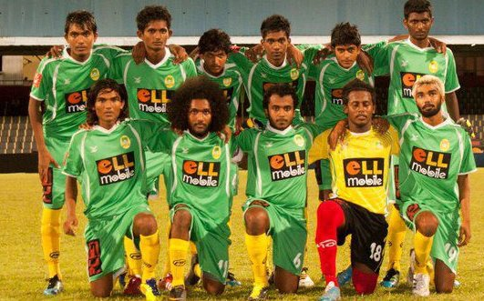 Maziya u20 2011 youth fa cup first 11